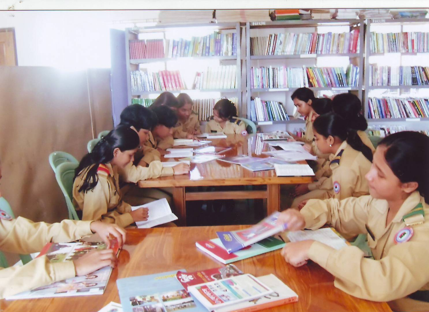 Bir Srestho Abdur Rouf Library (FGCC)